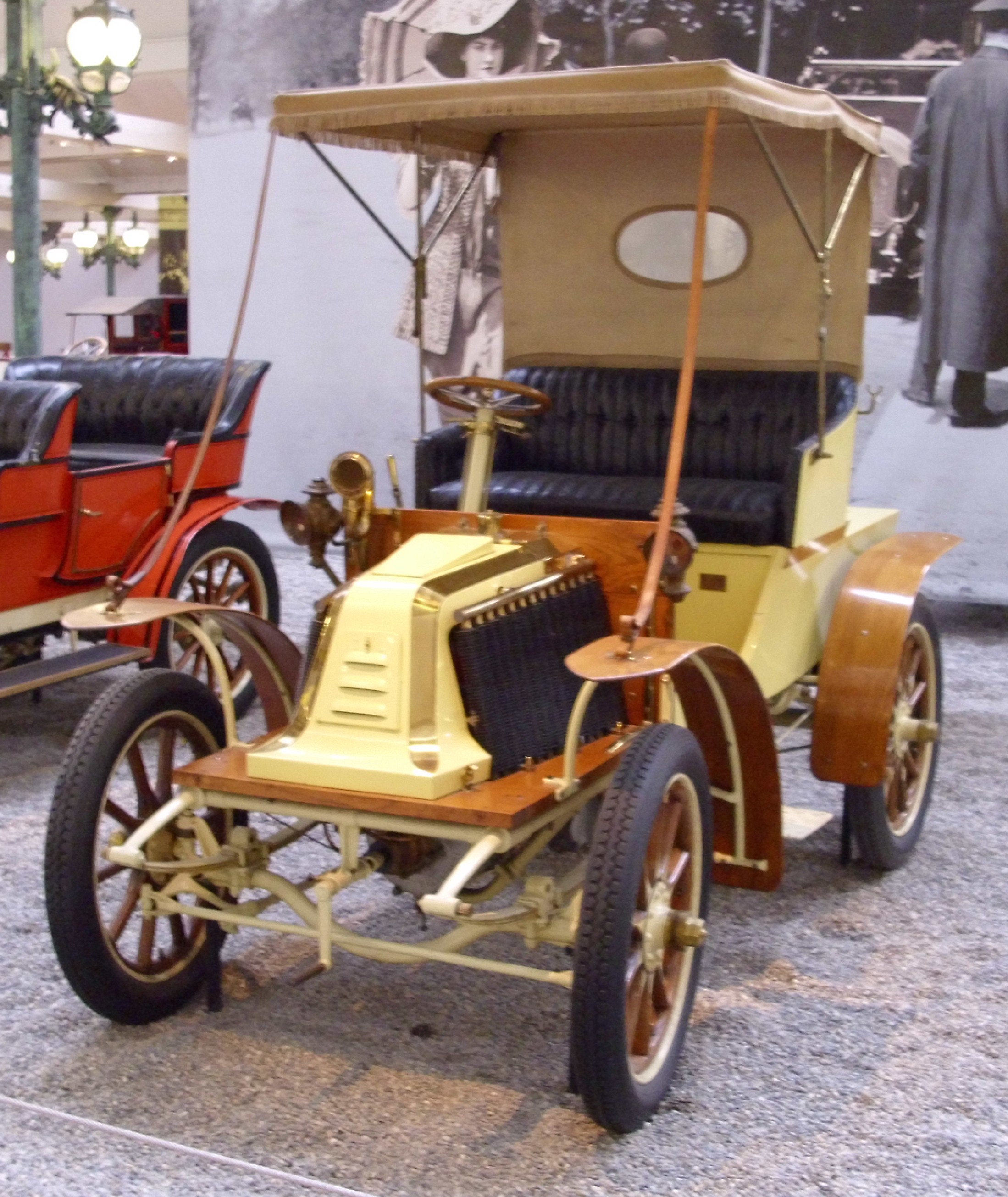 Renault Type T Phaeton 1904